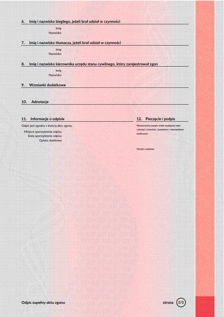 Polish death certificate, page 2 of 2, new version since 2015